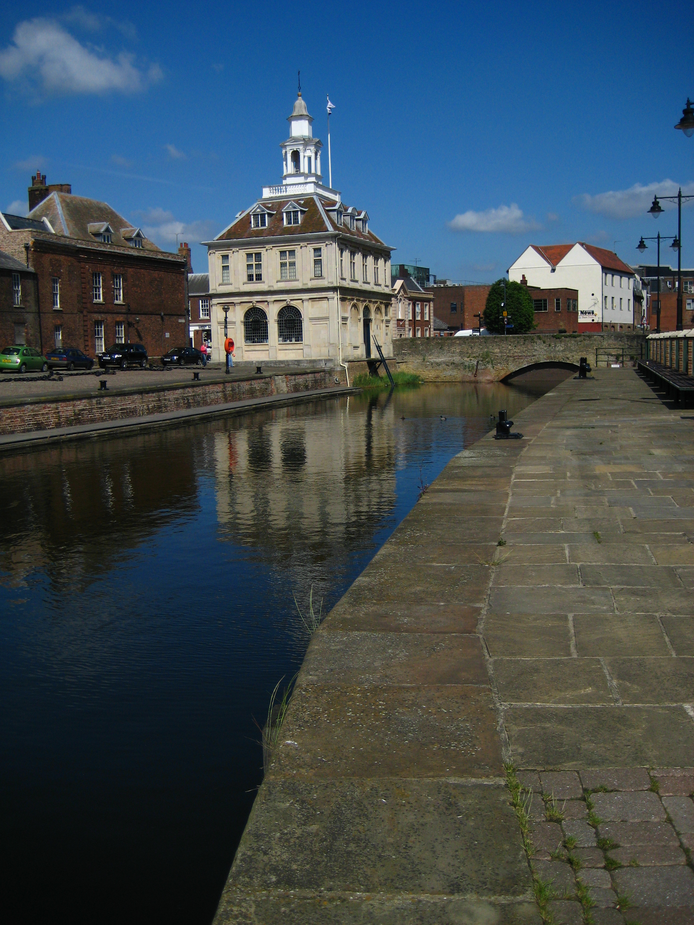 A photograph of the Customs House in King's Lynn